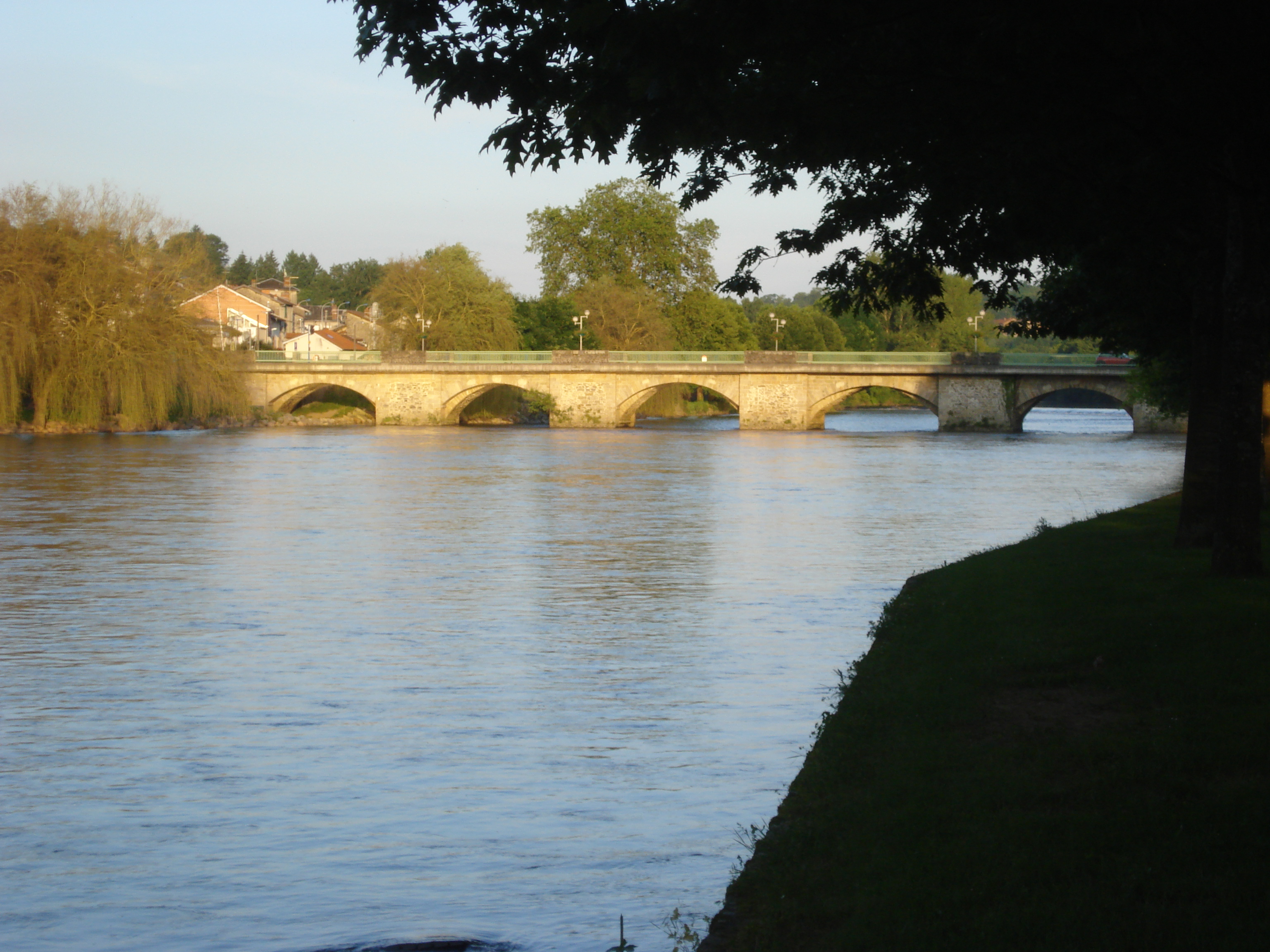 Vienne River at Aixe-sur-Vienne (Haute-Vienne, Fr).